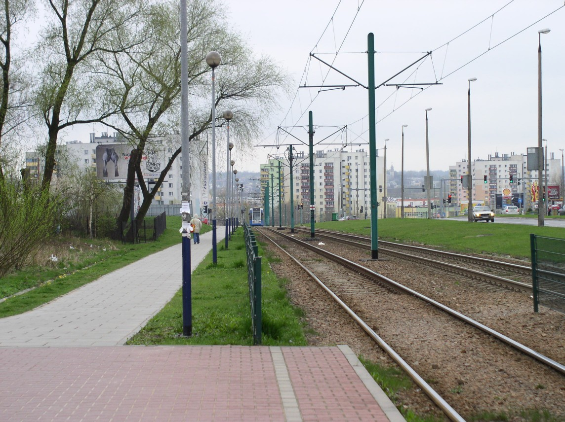 A tram line to Kurdwanow in Cracow, built in 2000.